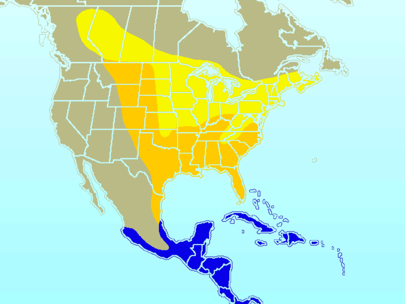 Approximate range/distribution map of the Rose-breasted Grosbeak (Pheucticus ludovicianus). In keeping with WikiProject: Birds guidelines, yellow indicates the summer-only range, blue indicates the winter-only range, green indicates the year-round range, and orange indicates areas through which the species will pass during migratory activity.